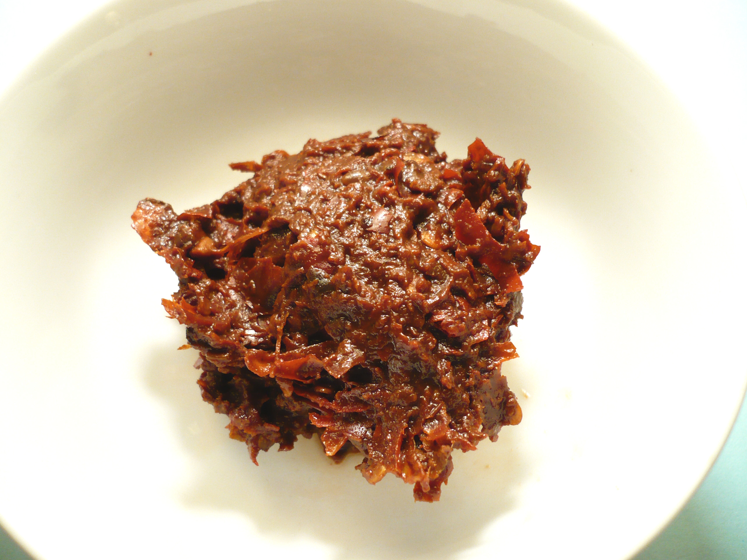 A bowl of Pixian doubanjiang (郫县豆瓣酱; pinyin: dòubànjiàng; literally "beans mixed into sauce"), a spicy paste made from fermented broad beans, soybeans, red chili peppers, salt, and spices; used particularly in the Sichuan cuisine of China. It is named for the town of Pixian, Sichuan. Photo taken in Kent, Ohio with a Panasonic Lumix digital camera (model DMC-LS75). The doubanjiang (Red Earth brand; ingredients: soybeans, chili, spices; produced in Chuzhou, Anhui, China) was purchased in a Cleveland, Ohio-area Chinese grocery store.